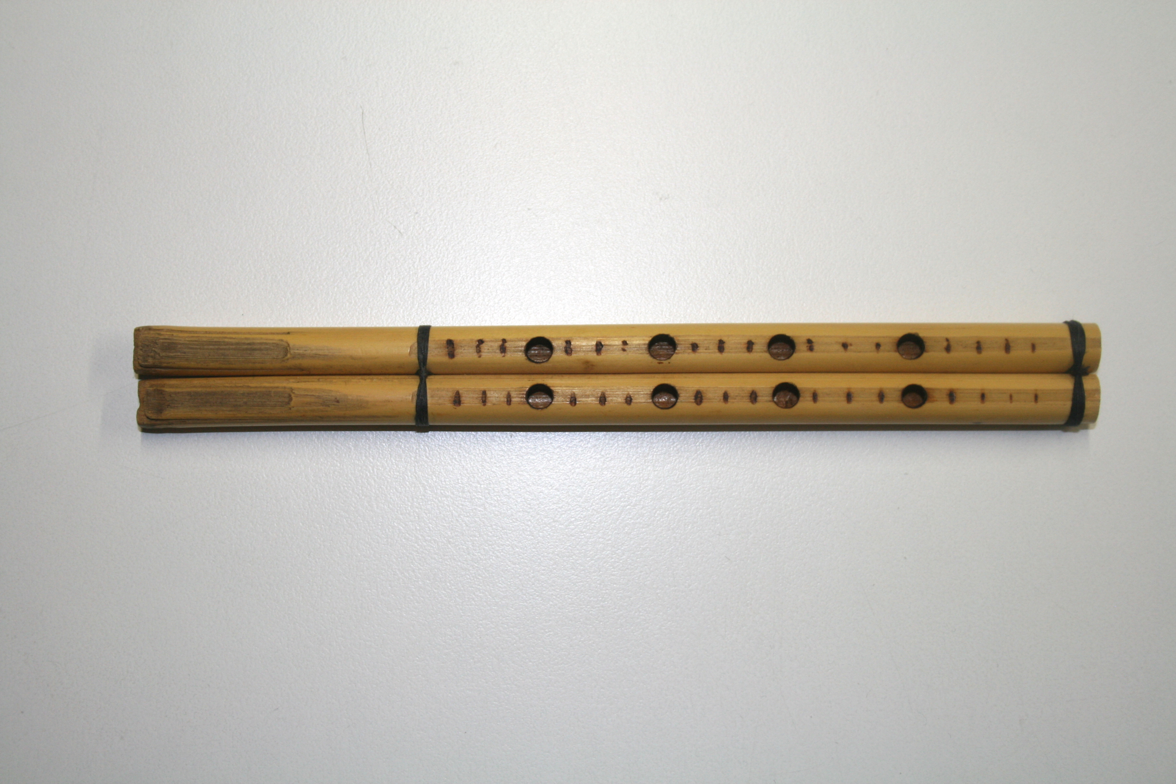 Reclam de xeremia. Musical instrument from Eivissa (Balearic Islands)